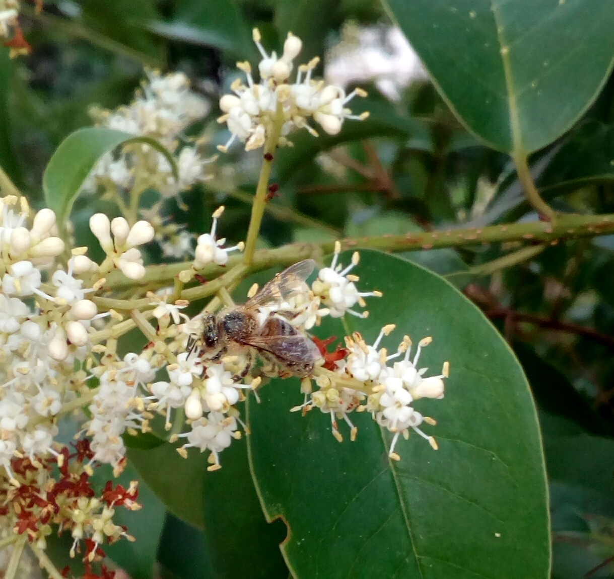 Europian honey bee on ligustrum lucidum blossoms